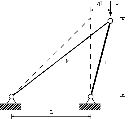 By Khurram Wadee, created using tgif.